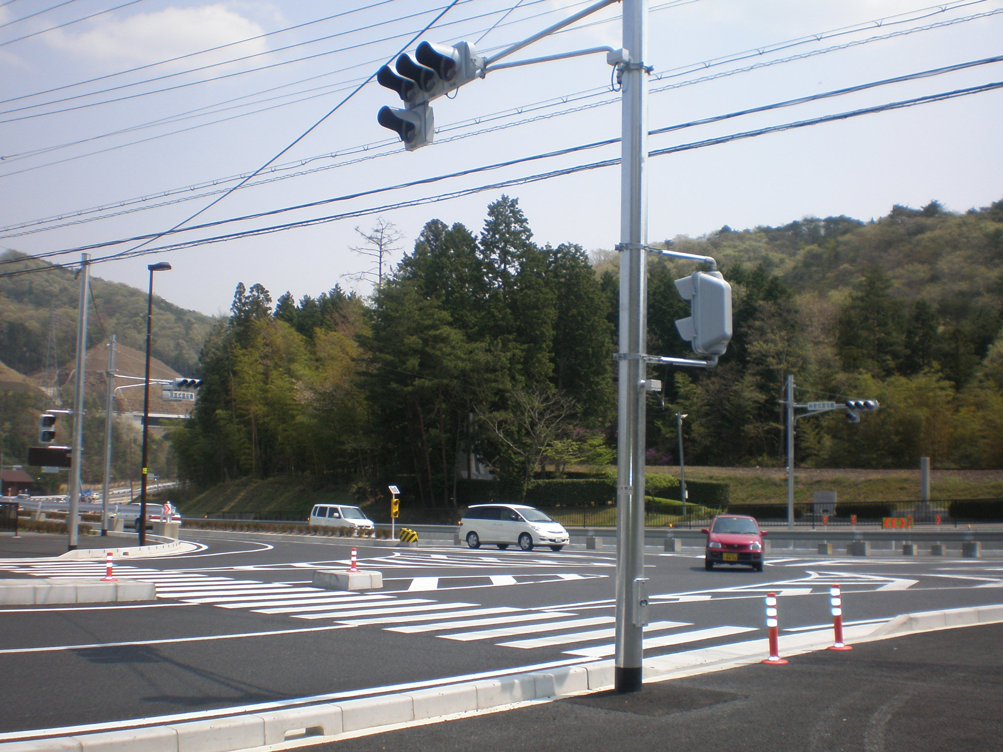 The vicinity of Shigaraki interchange I took this image at Kinose kouka City Shiga Pref., Japan.